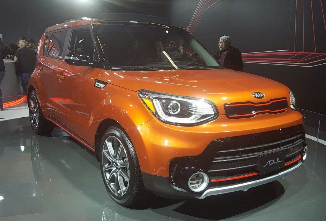 2017 Kia Soul photographed in Montreal, Quebec, Canada inside the 2017 Montreal International Auto Show.